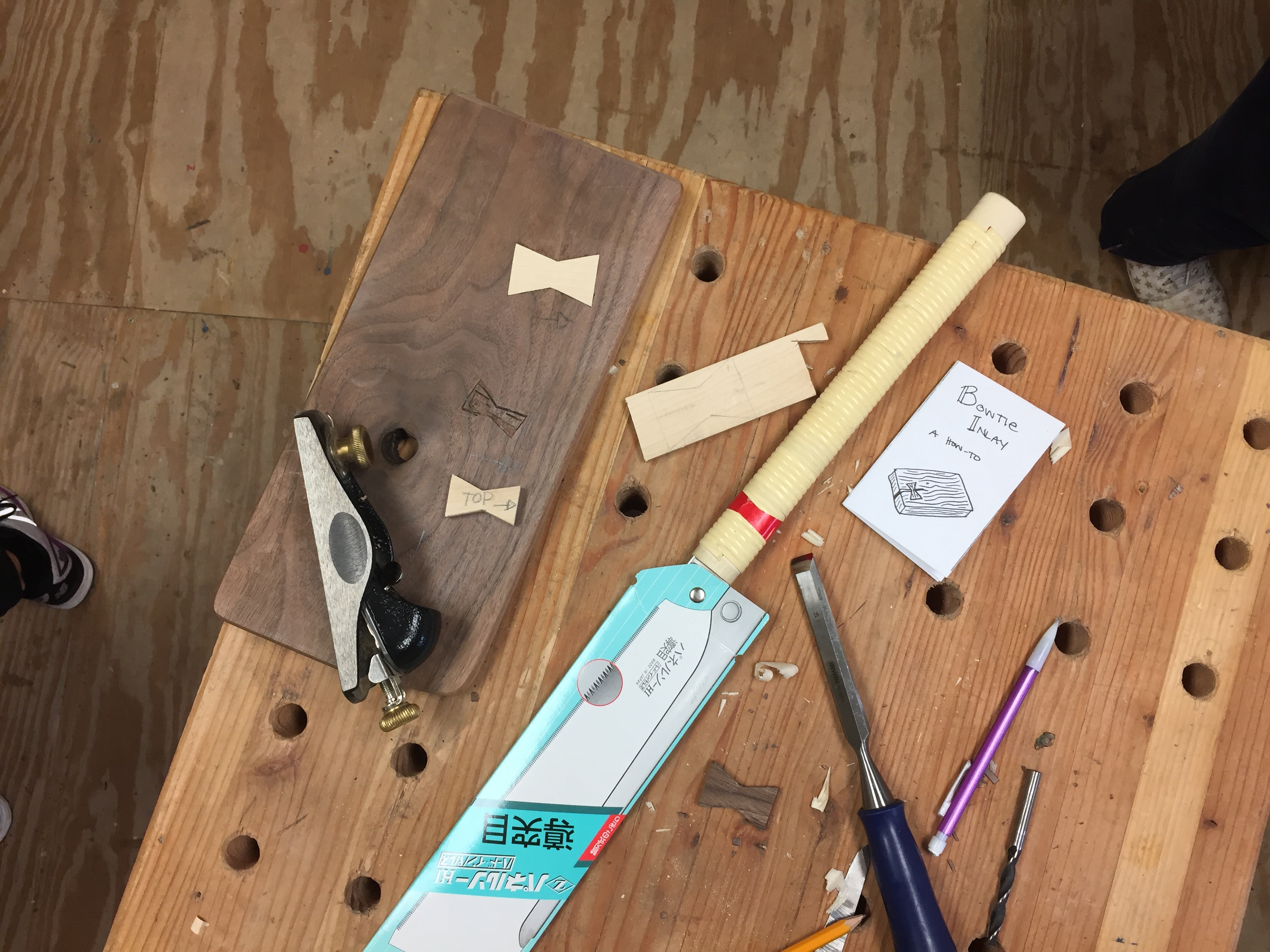 Woodworking hand tools laid out for a Tea Tray class at the Women's Woodshop in Minneapolis, MN taught by Teresa Audet